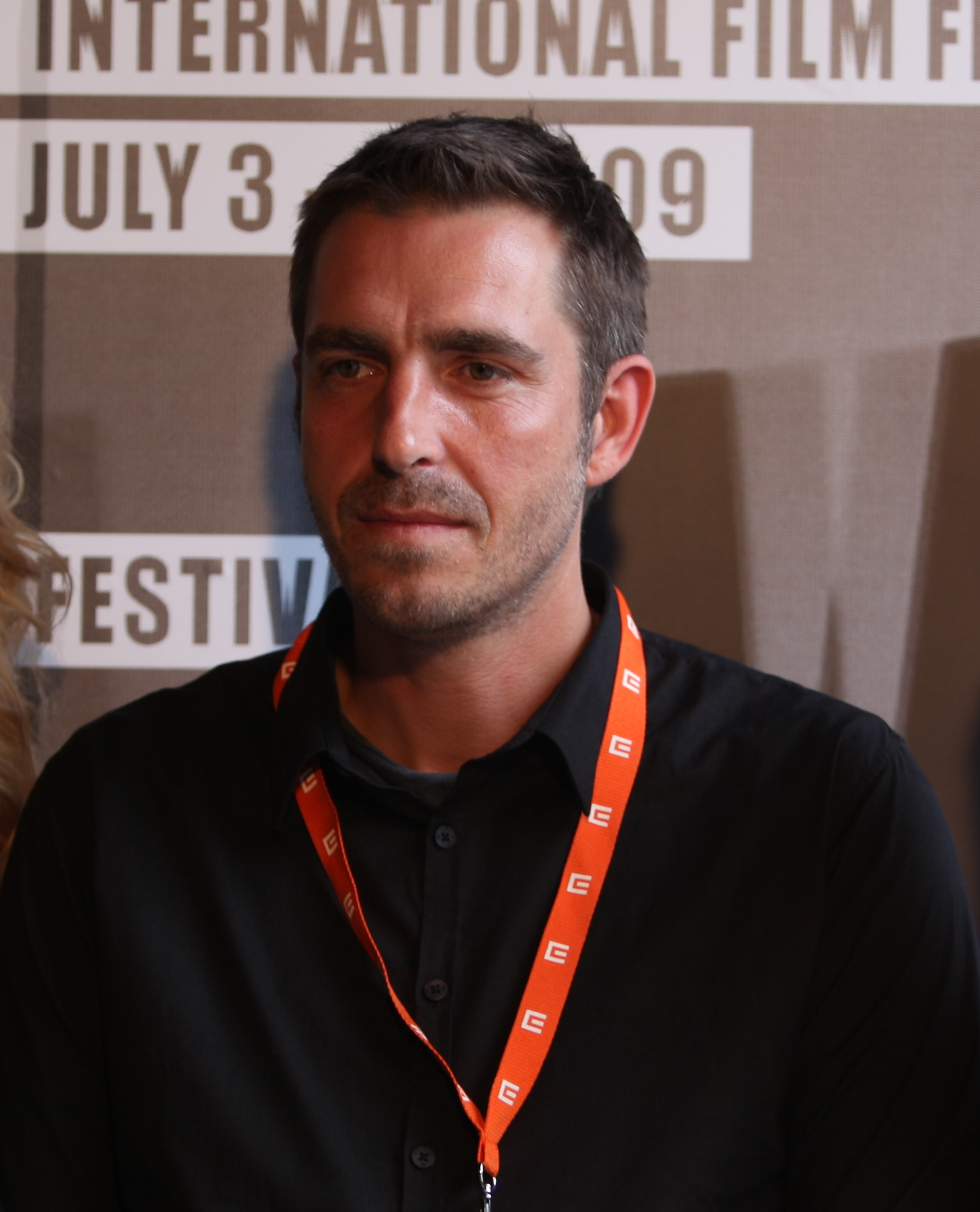 Delegation for Danish film Applause in Karlovy Vary: Paprika Steen, Martin Zandvliet, Anders August